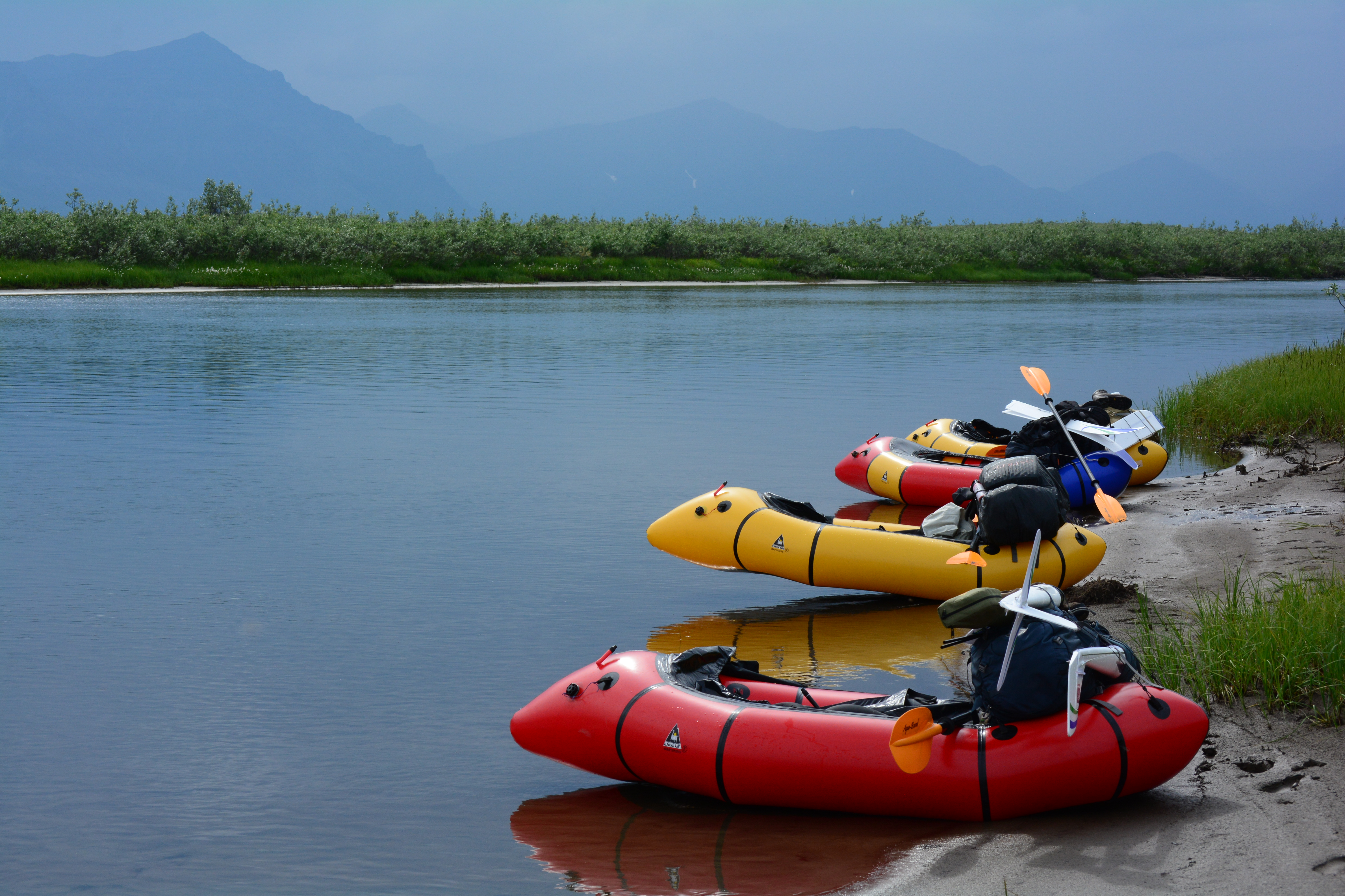 Four Alpacka packrafts on the Anaktuvuk River.